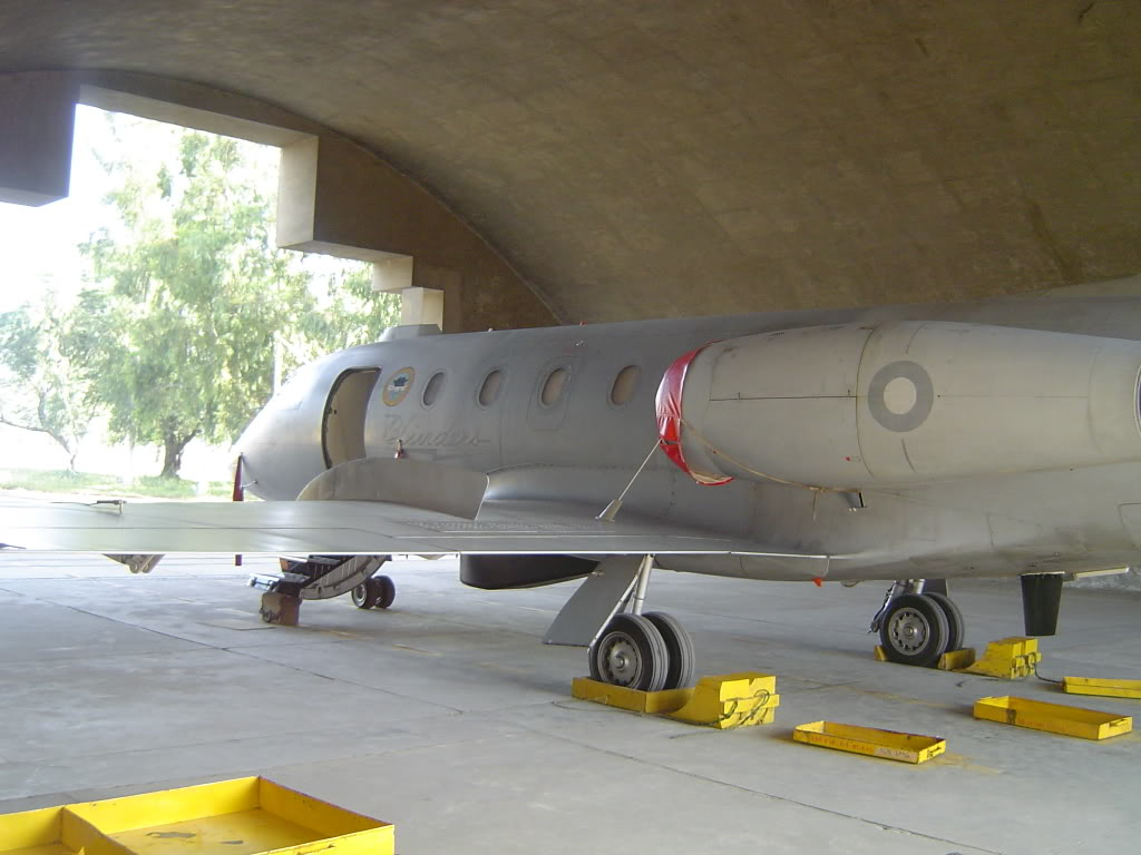 A Dassault Falcon 20 (DA-20) jet aircraft, fitted with electronic warfare equipment and nicknamed "Iqbal" after a Pakistani war veteran, is parked in a hangar at a Pakistan Air Force airbase. It is operated by the PAF's No. 24 Blinders Squadron.